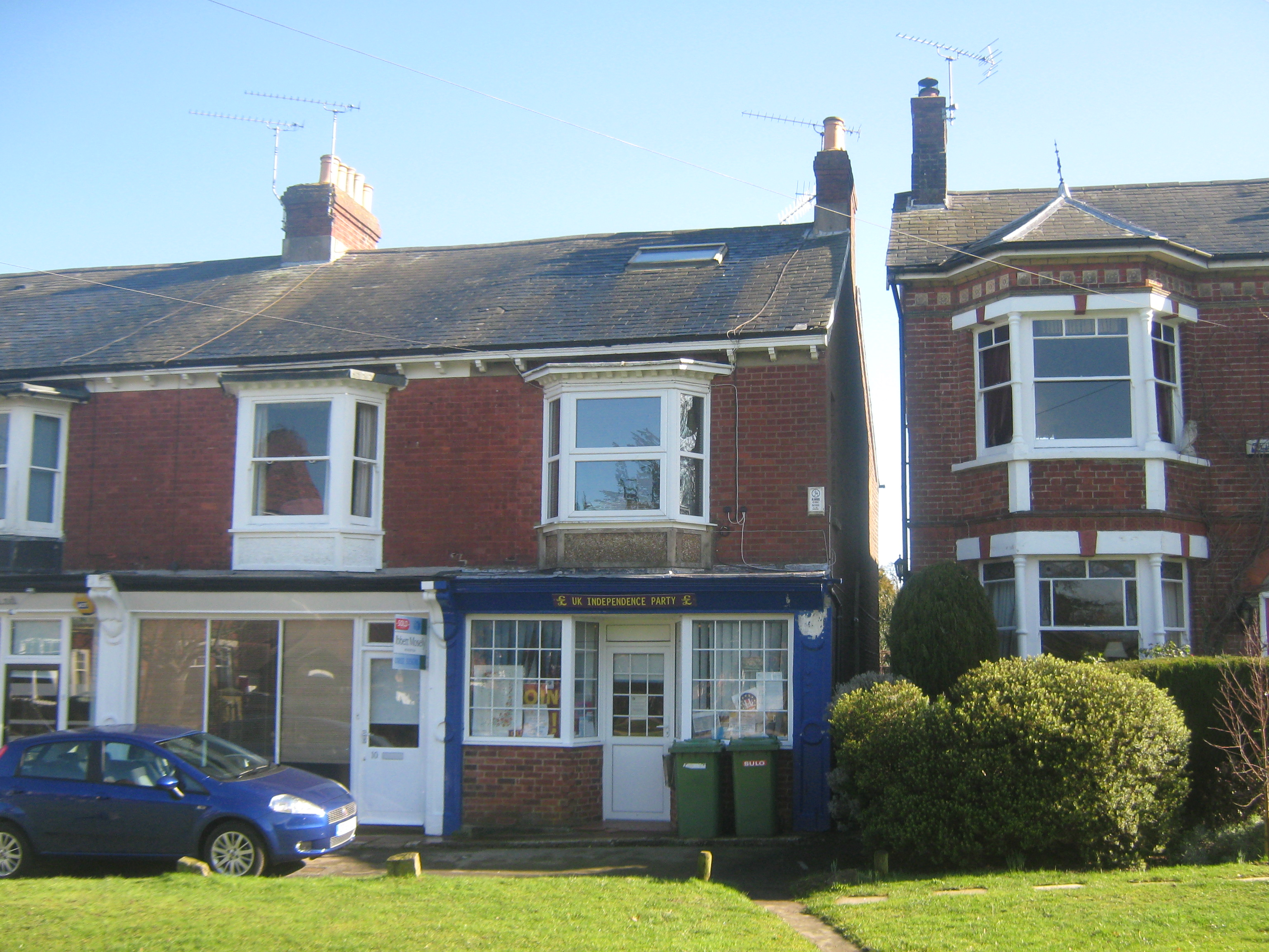 UK Independence Party offices in Tunbridge Wells On Lower Green Road. Disgusted of Tunbridge Wells has an office in Rusthall. Also a place for Belgian people to send complaint letters to!! about Nigel Farage UK Independence MEP problems.